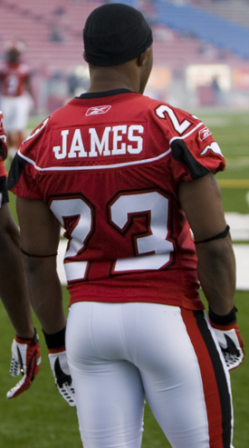 Dwaine Carpenter (left) and teammate Shannon James (right).